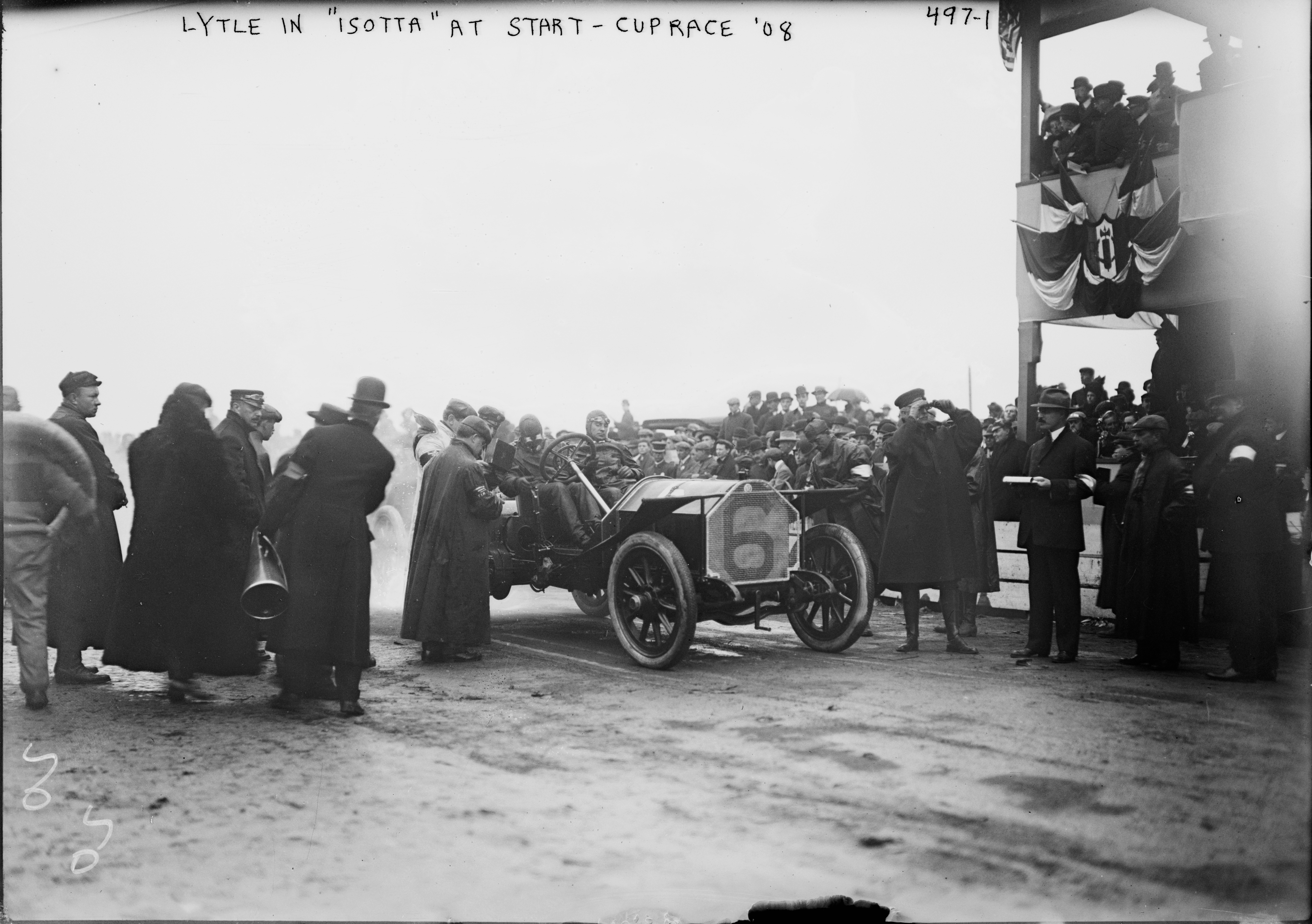 Herb Lytle before the 1908 Vanderbilt Cup race